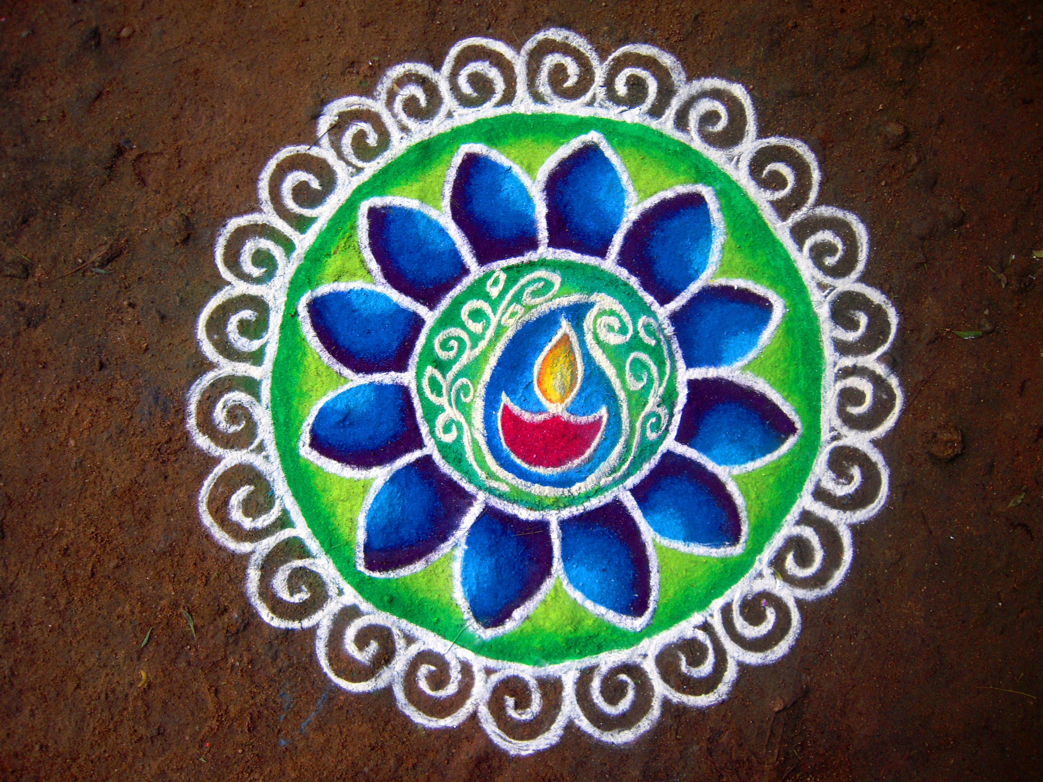 RANGOLI, a piece of work with colour powders done for "Diwali" a Festival of Lights, celebrated in India.